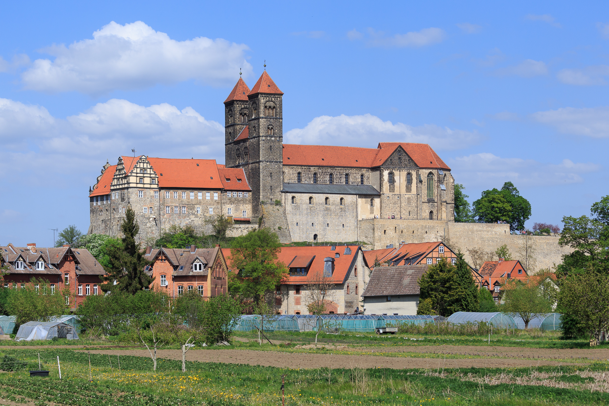 Collegiate church St. Servatius (Quedlinburg)